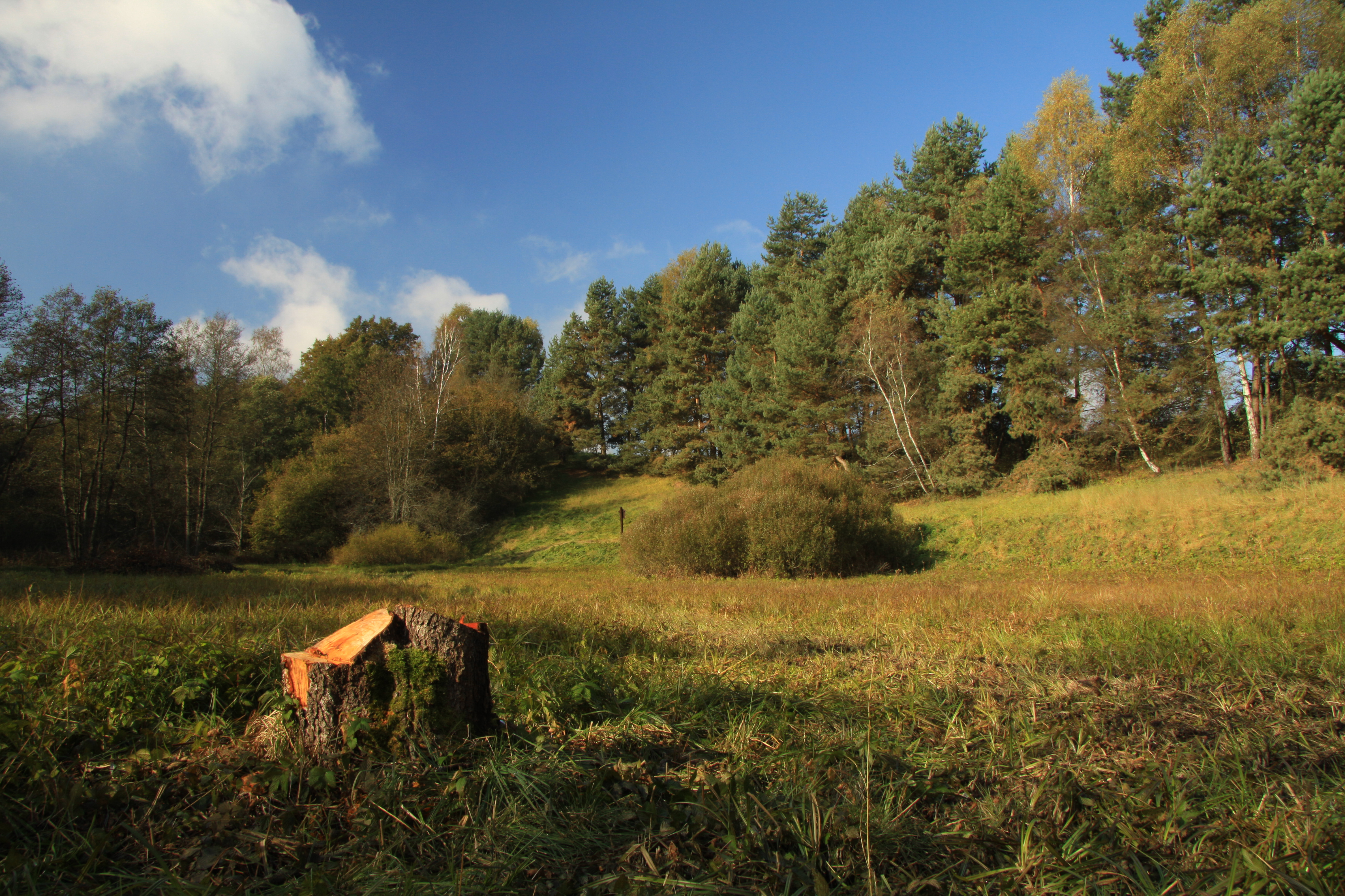 Nature reserve Dobročkovské hadce near Dobročkov village partly lying on the area of CHKO Blanský les, Prachatice District, Czech Republic Project: Chráněná území.